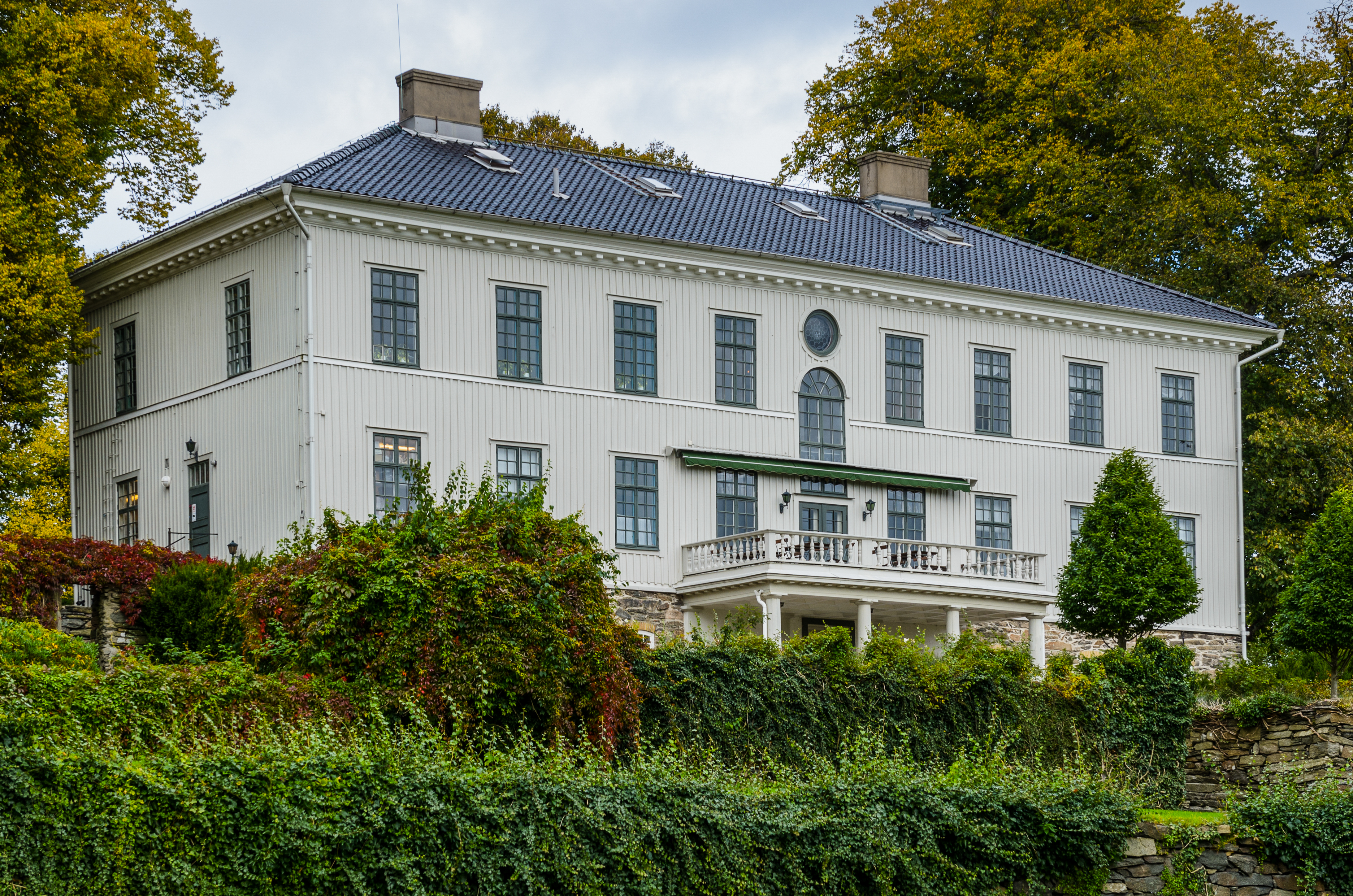 Råda säteri, main building.